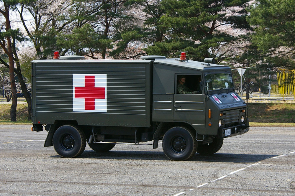 Taken by los688,8-Apr-2007,JGSDF Camp-Utsunomiya.JGSDF 1&1/2t ambulance.PD-self.